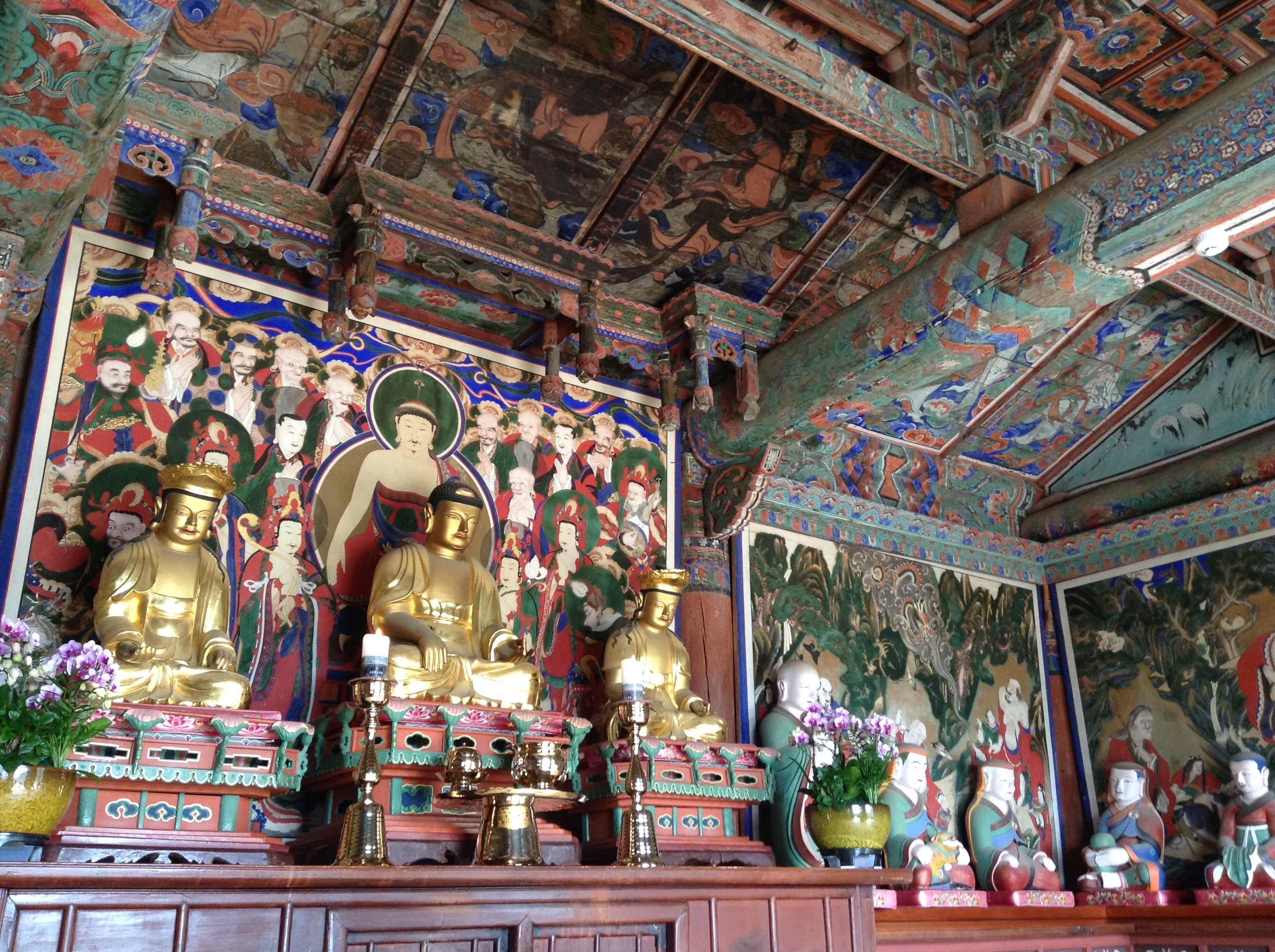 Beomeosa Tempel in Busan (South Korea), interiro of a hall